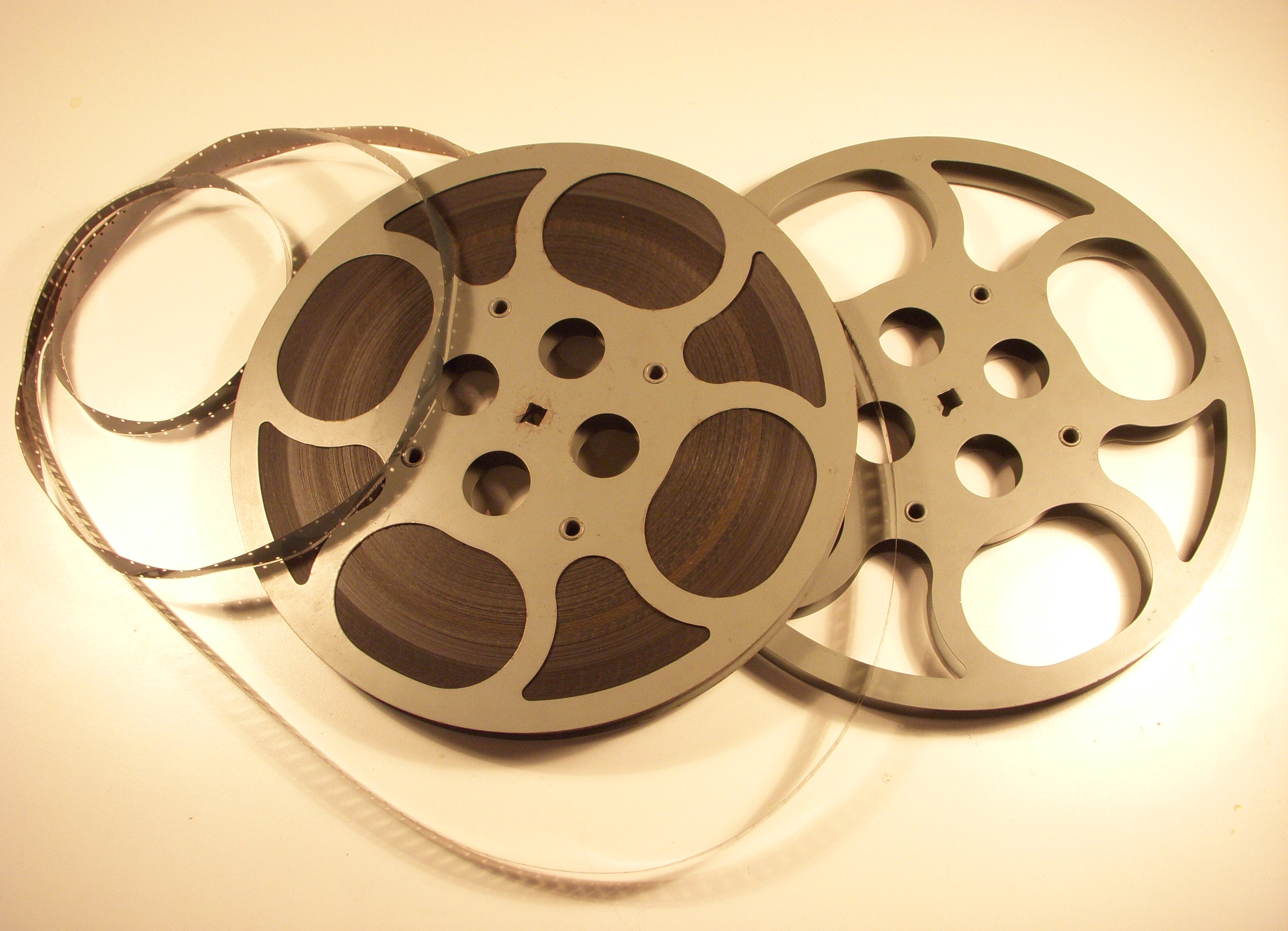 16 mm film reel